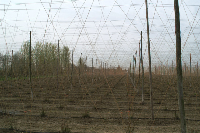 Beer's staple ingredient Hop bines at Staplestreet